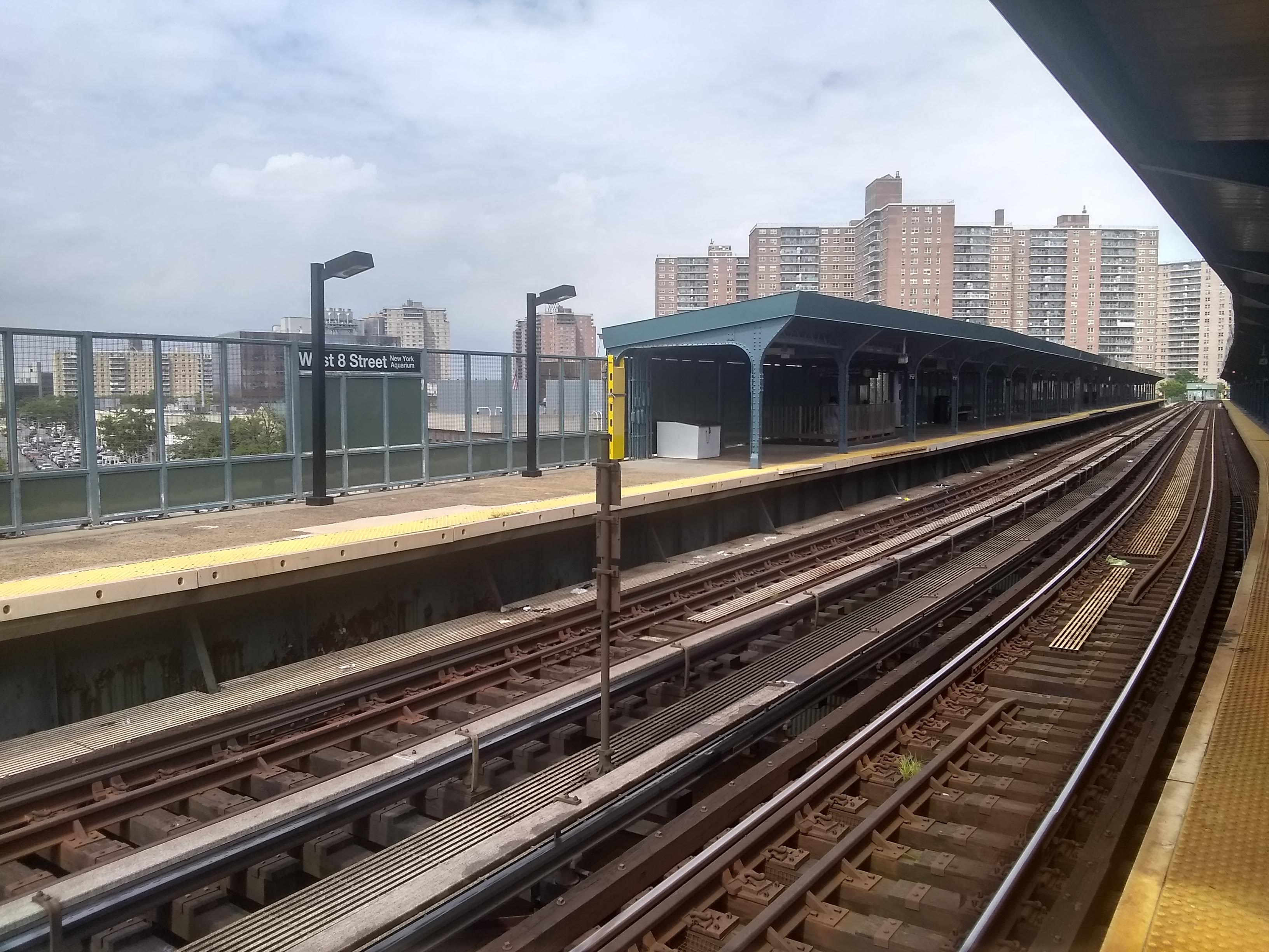 The West 8th Street/NY Aquarium subway station in New York City